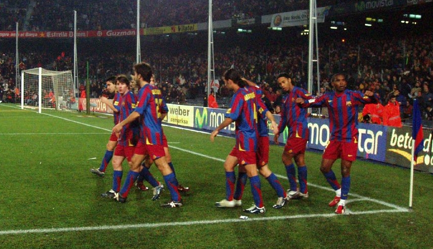 Futbol Club Barcelona